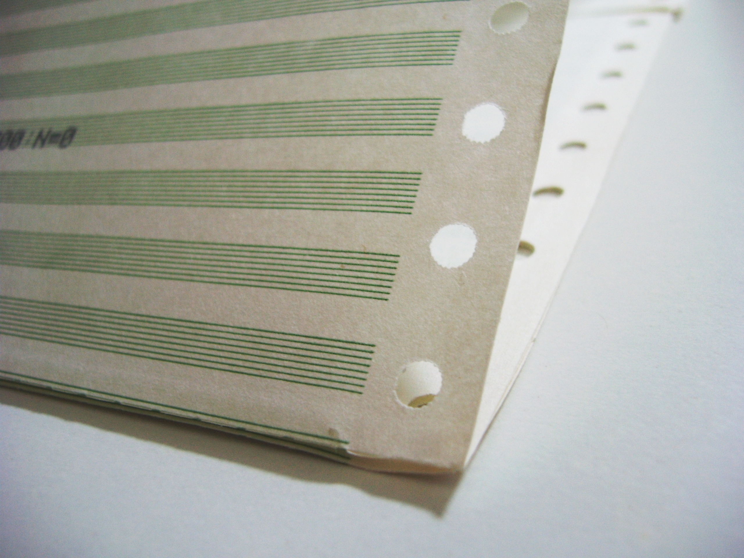 Continuous stationery, Endlospapier